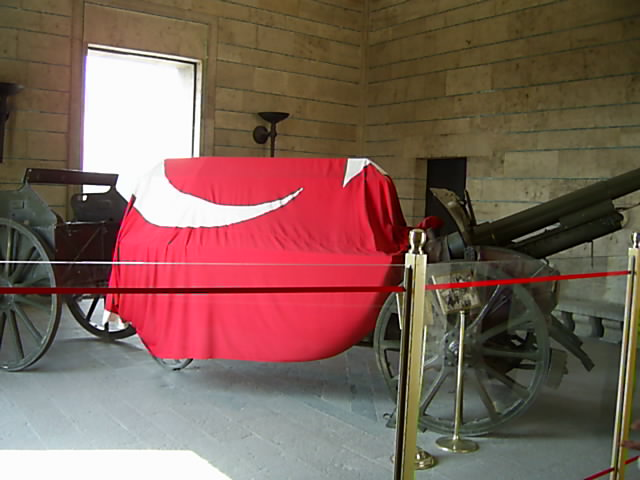 The coach that carried Atatürk's body to Anitkabir